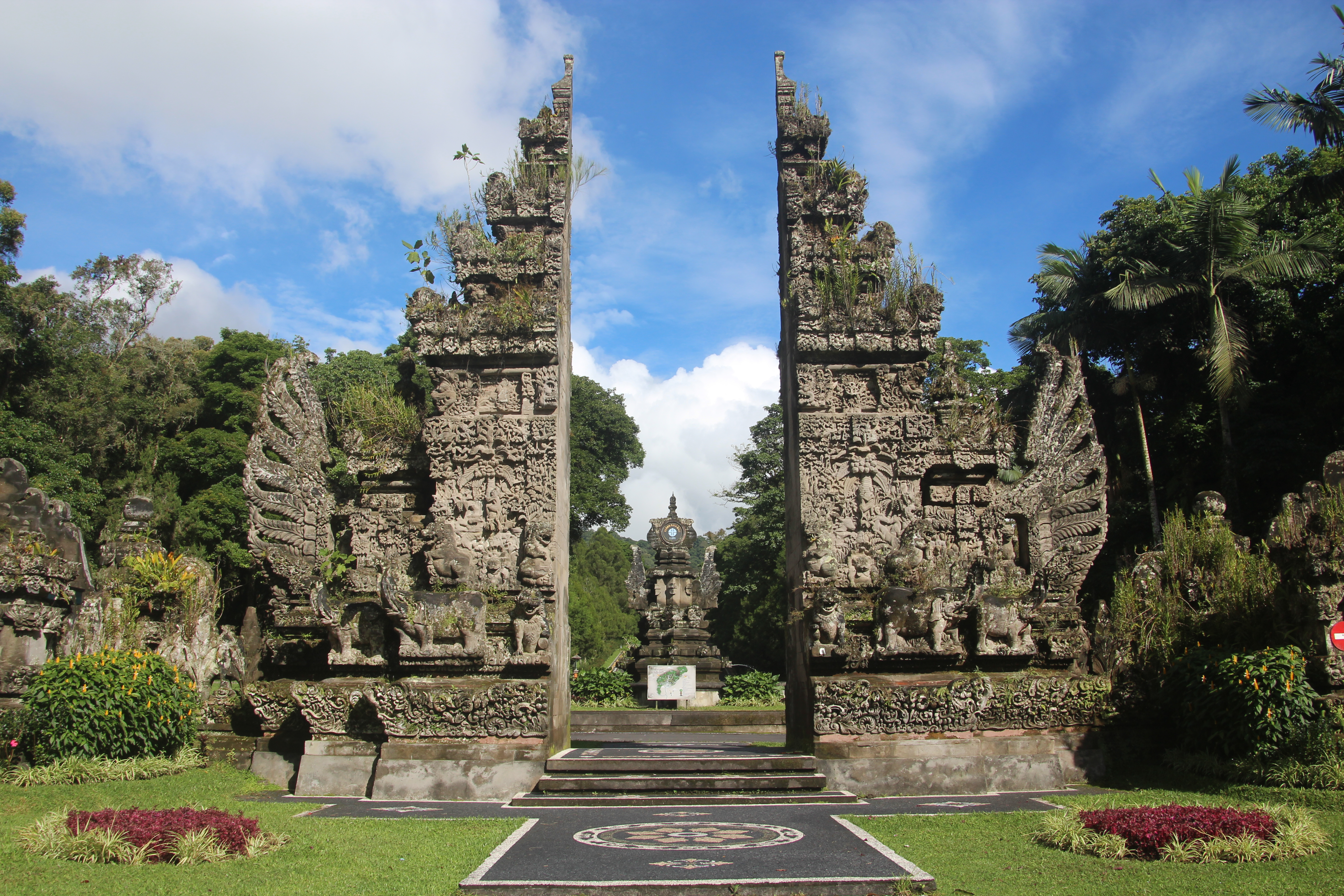 The Bentar monument (candi bentar) makes up the main gate of the Bali Botanic Garden. The shape of the split gate symbolises two large doors (Kori Agung). The Bentar monument also symbolises a mountain. On the main gate walls are reliefs of Indonesian flora and fauna symbolising the harmony between nature and human relationships (the Balinese Hindu community). The plant carvings include flowers of ixora, pandan, rice, cotton, coconut, ferns, grass and foliage. The animal carvings include elephants, lions, tigers, deer, monkeys, birds, bats, cows, pigs and dragons.